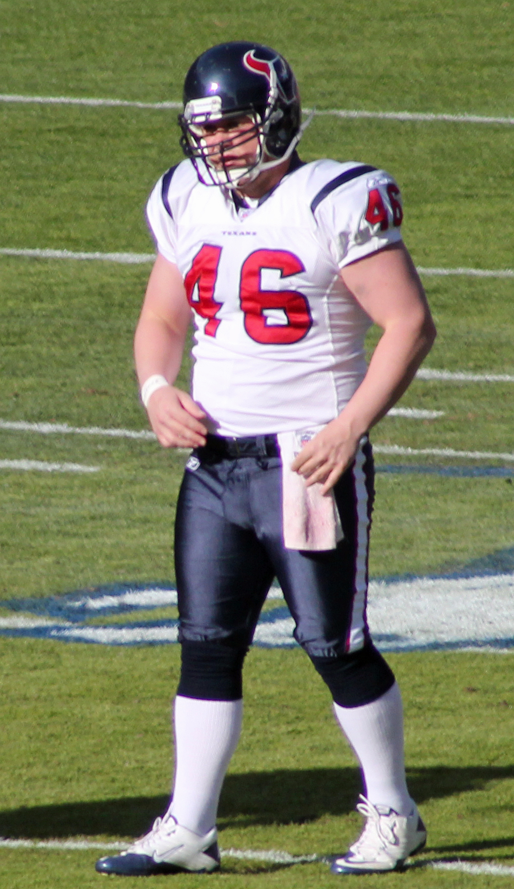 Jon Weeks, a player on the Houston Texans American football team.